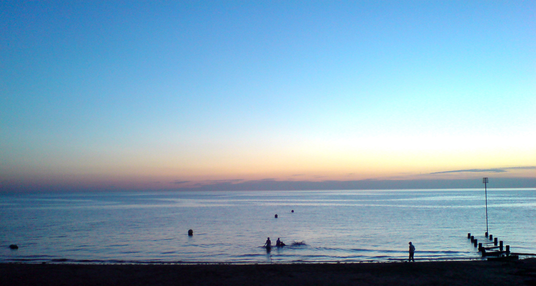 Author: Jamsta Date: 4 Aug 07 Location: Heacham Beach